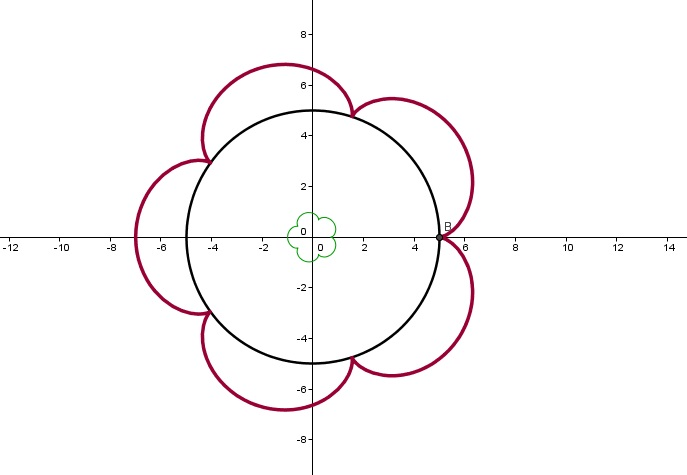 Envolute Epicycloid